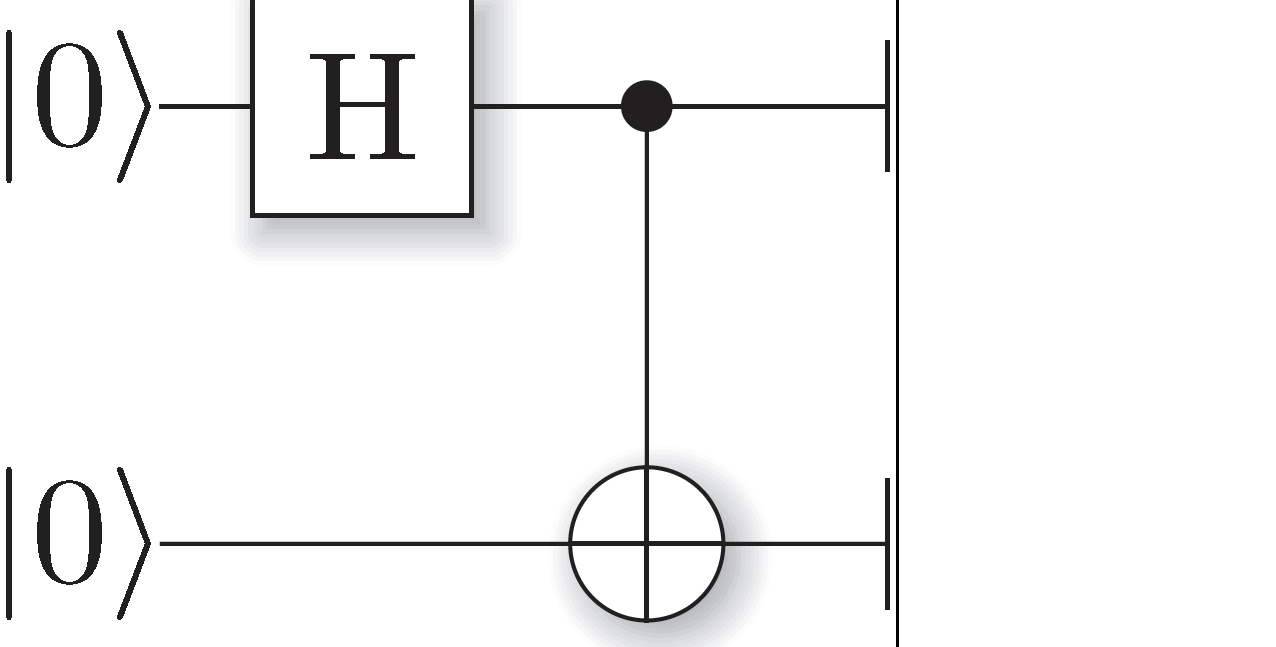 Combination of Hadamard gate with CNOT -one of the application is teleporting